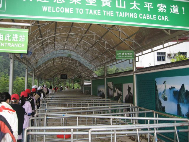 Entrance of the Taiping cable car station